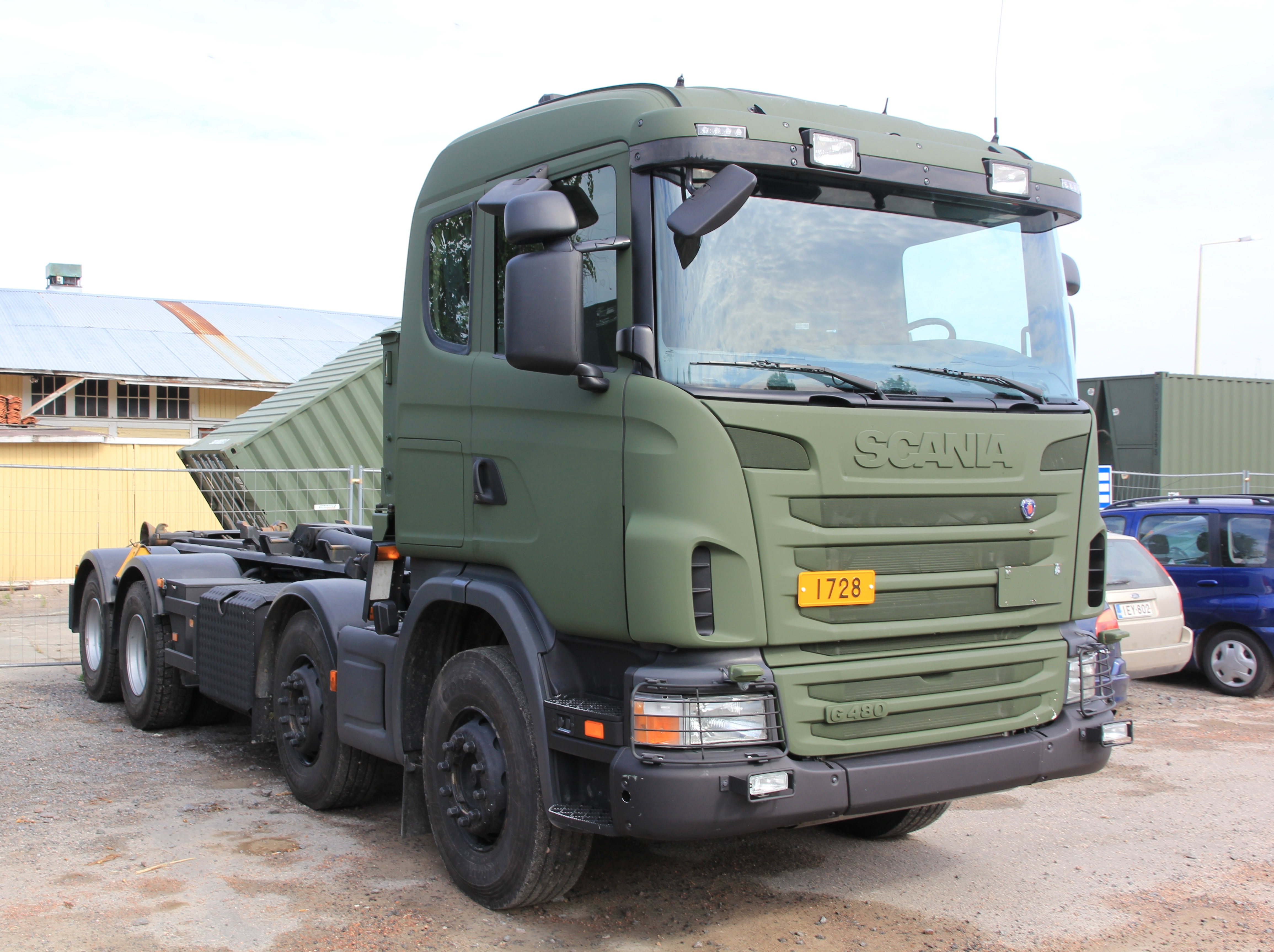 Scania G480 6x2 truck on display during Finnish Defence Forces 2013 Flag day in Ekenäs harbour.